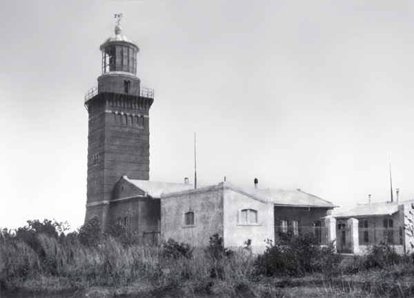 The first-order lighthouse in Cabra Island, Mindoro Occidental, the Philippines. Built during the Spanish Colonial Era in the Philippines, it was first lit on March 1, 1899 . The picture was taken by the U.S. Government in 1903.